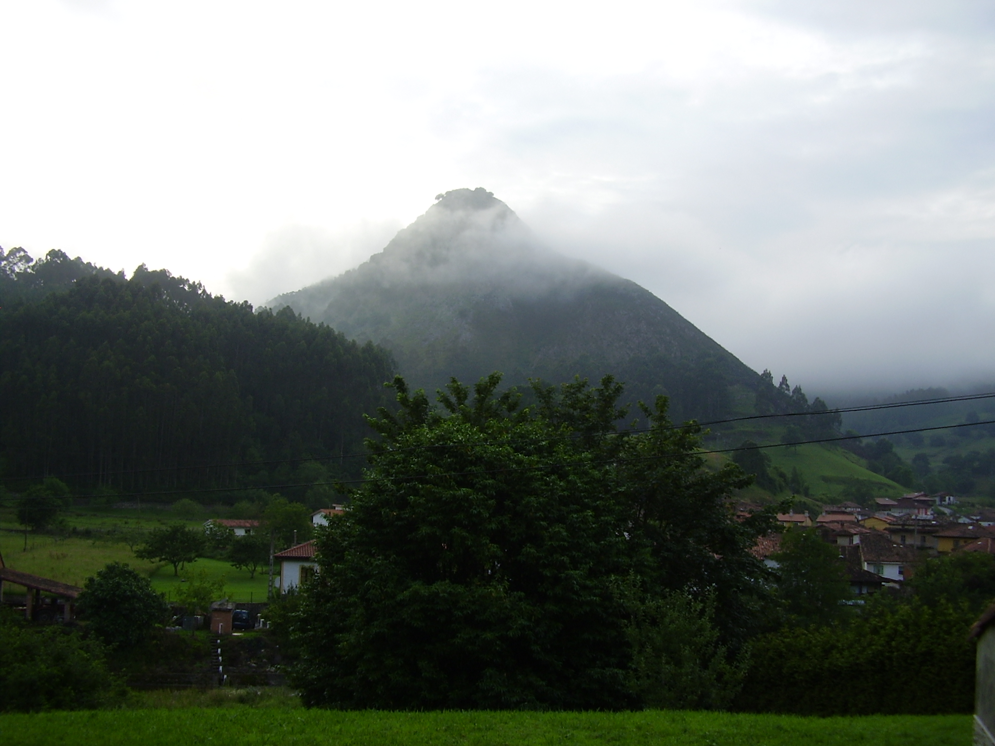 Desde los 274 m. del Pico Castillo se puede ver el mar.